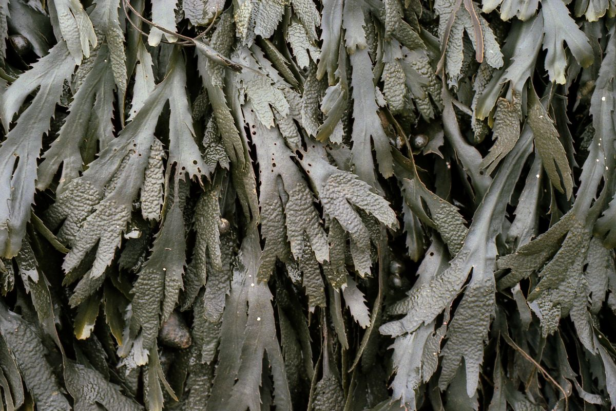 Fucus serratus, Heligoland (Germany)